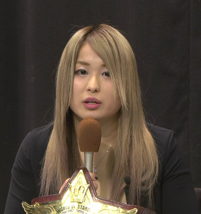 Io Shirai